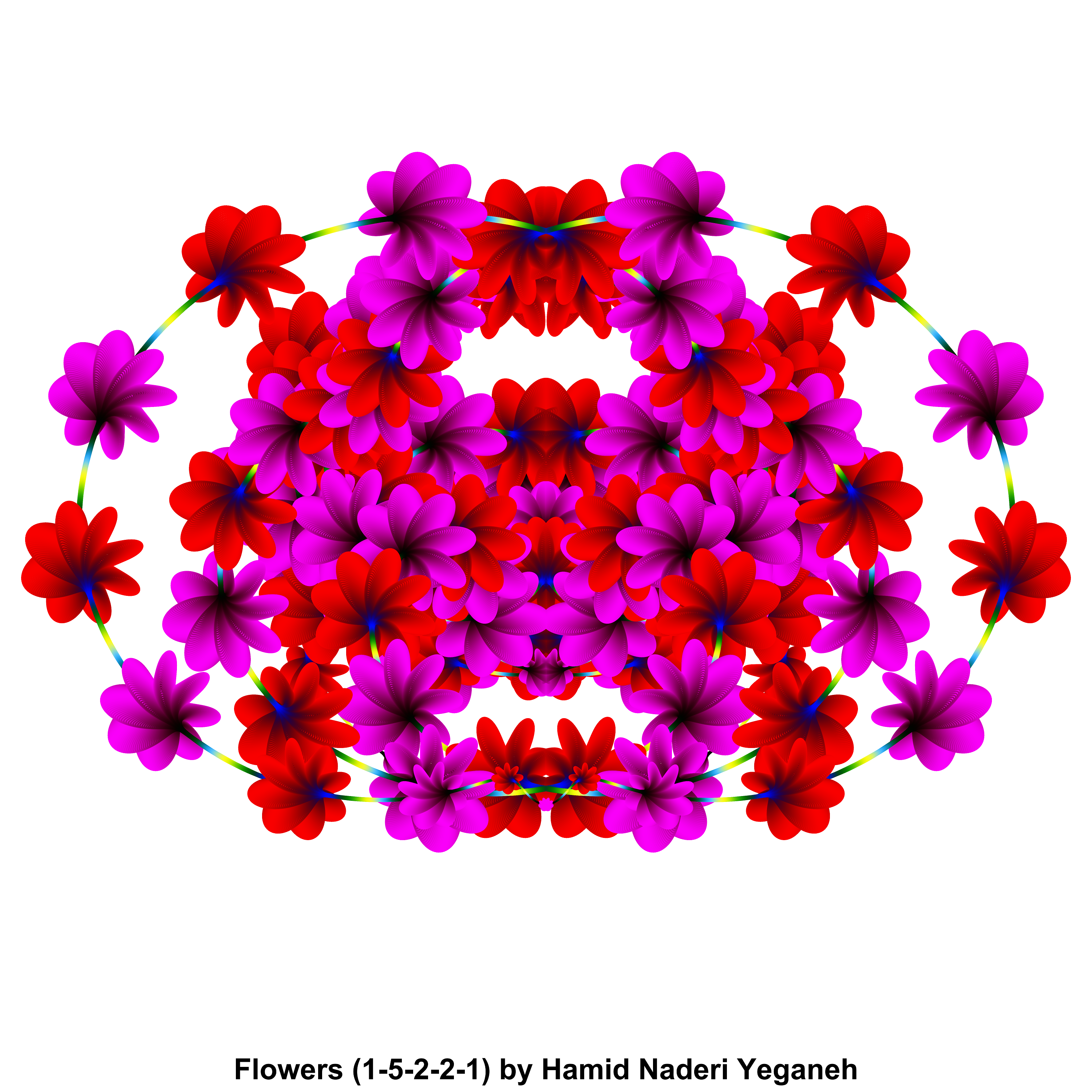 A mathematical artwork created by Hamid Naderi Yeganeh.